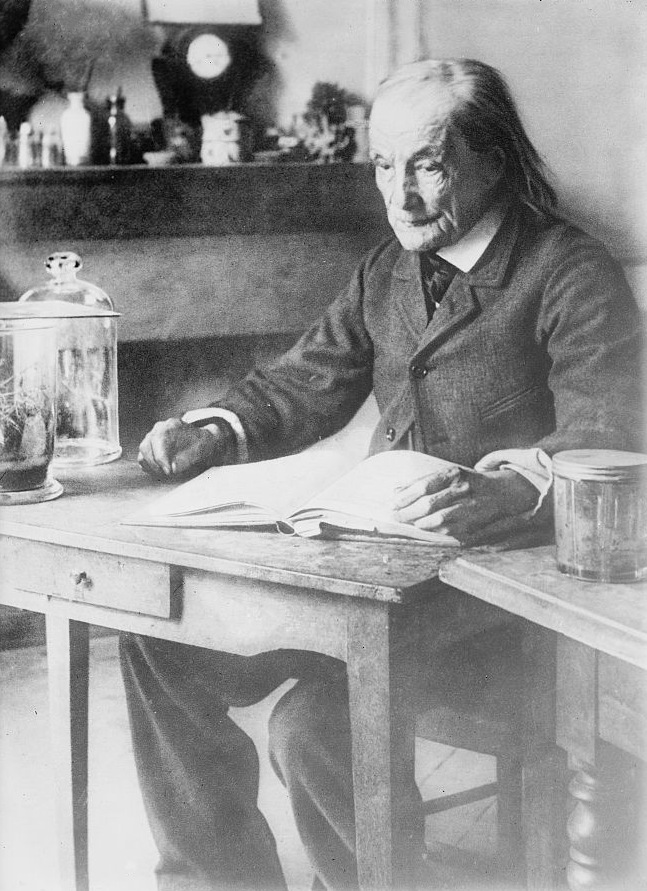 Bain News Service,, publisher. Jean Henri Fabre [between ca. 1910 and ca. 1915] 1 negative : glass ; 5 x 7 in. or smaller. Notes: Title from unverified data provided by the Bain News Service on the negatives or caption cards. Forms part of: George Grantham Bain Collection (Library of Congress). Format: Glass negatives. Repository: Library of Congress, Prints and Photographs Division, Washington, D.C. 20540 USA, General information about the Bain Collection is available at Persistent URL: Call Number: LC-B2- 2844-13